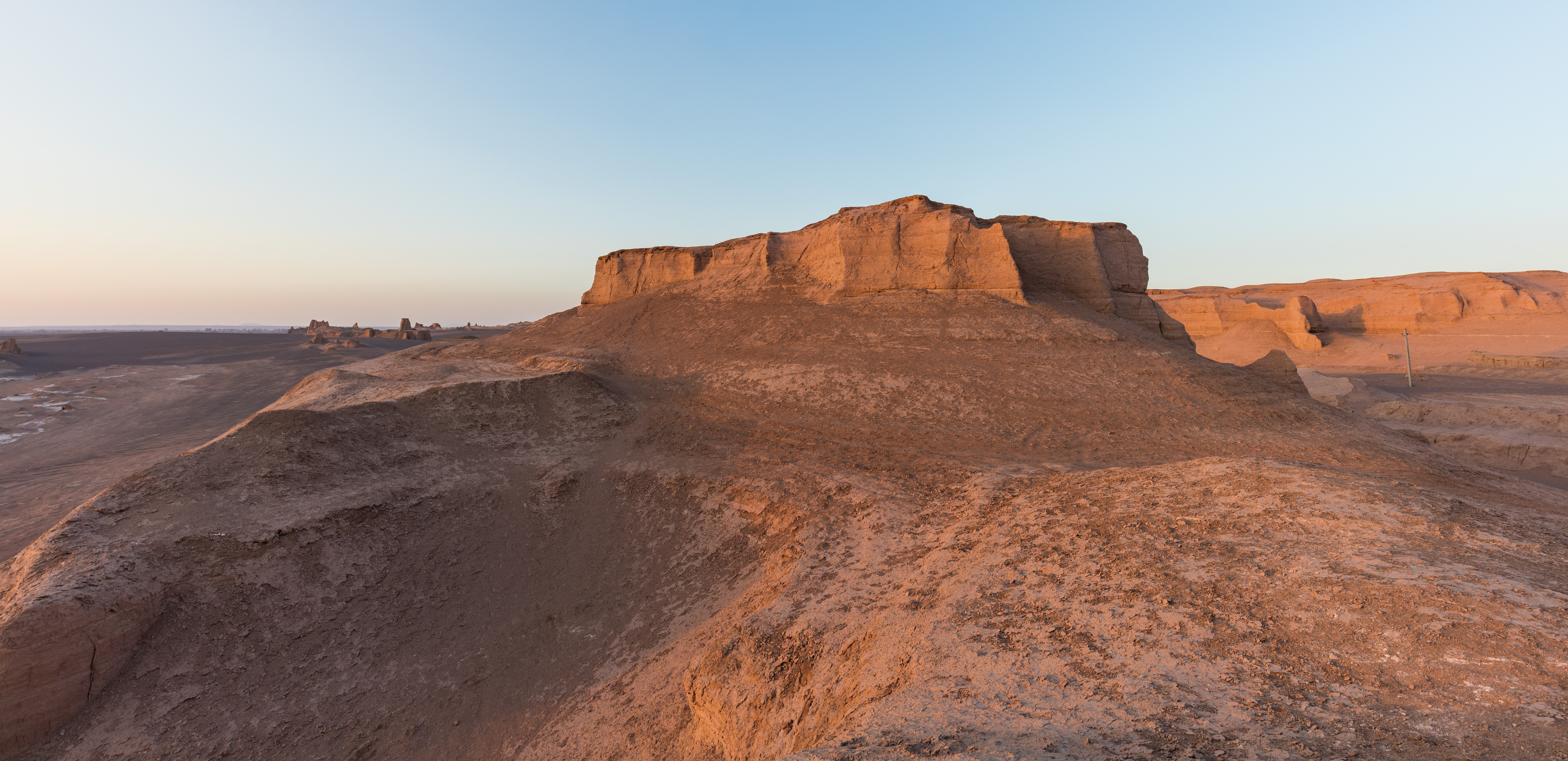 Lut Desert, Iran